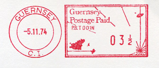 Meter stamp catalog image, Guernsey type 7